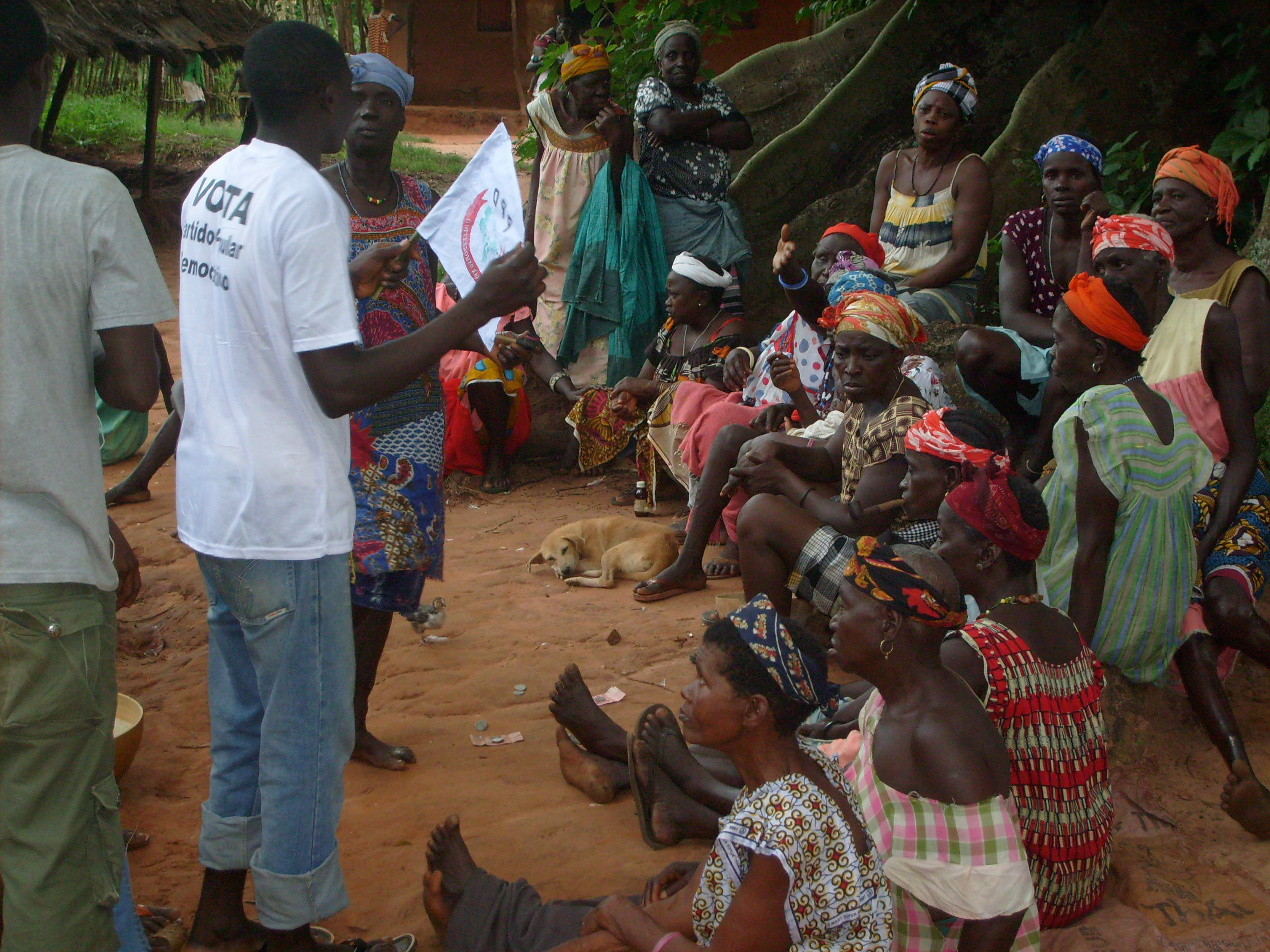 Political party door to door campaigning in Biombo region, Guinea-Bissau, 2008